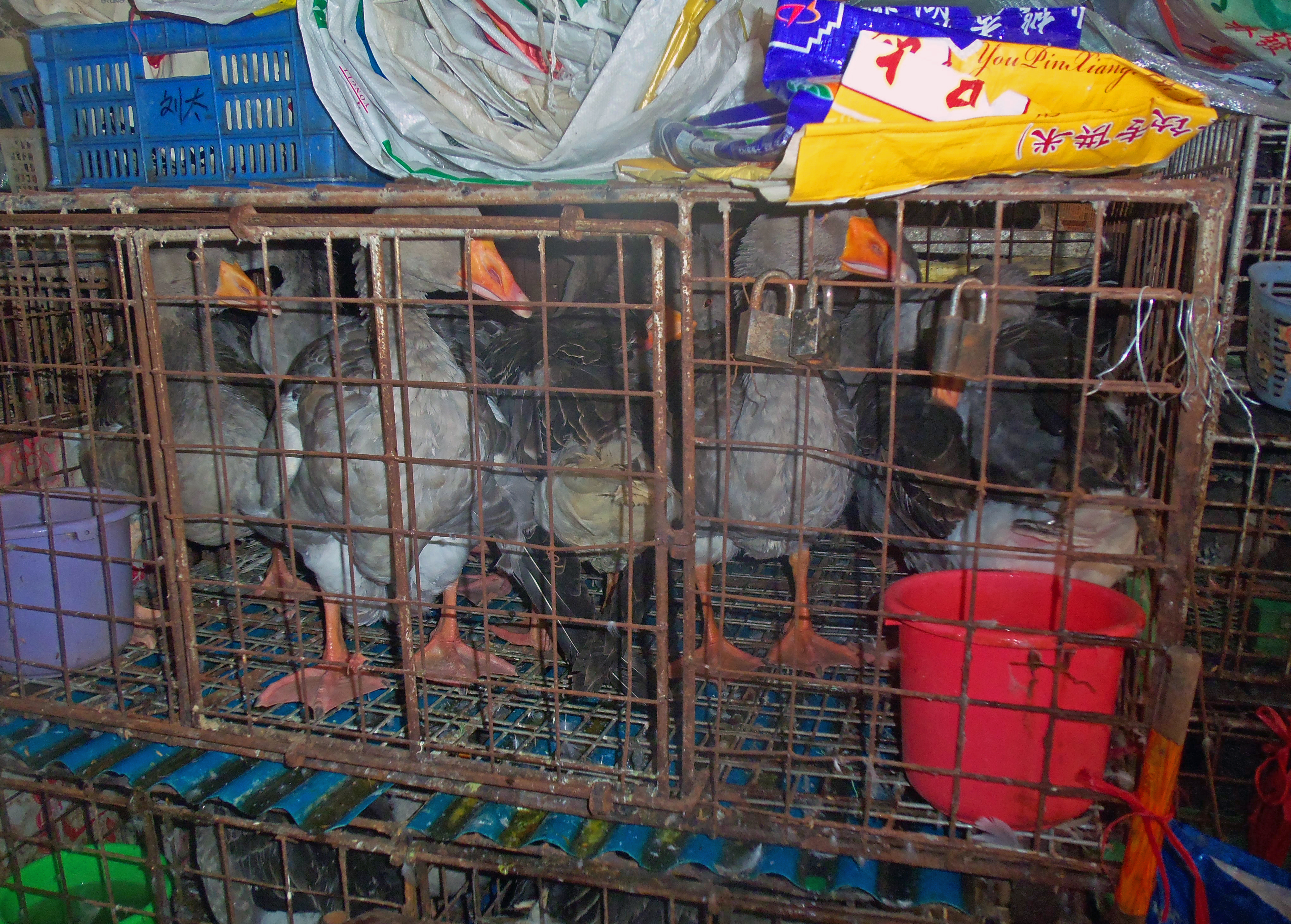 Caged geese at wet market in Luohu District